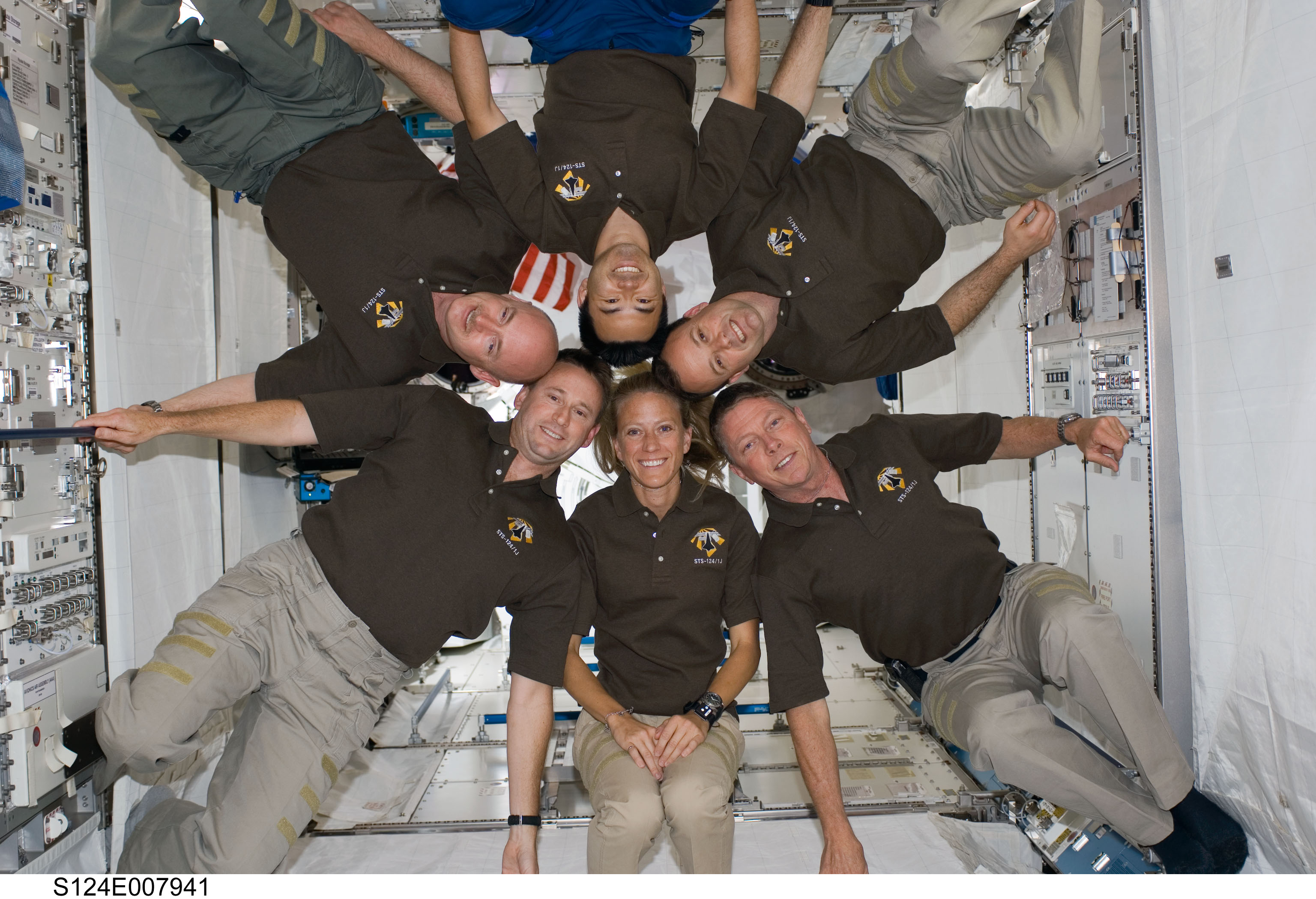 STS-124 crewmembers pose for a portrait following a joint news conference with the Expedition 17 crewmembers from the Kibo Japanese Pressurized Module of the International Space Station while Space Shuttle Discovery is docked with the station. Pictured (clockwise) from the bottom are NASA astronauts Karen Nyberg, mission specialists; Ken Ham, pilot; Mark Kelly, commander; Japan Aerospace Exploration Agency astronaut Akihiko Hoshide, NASA astronauts Ron Garan and Mike Fossum, all mission specialists.